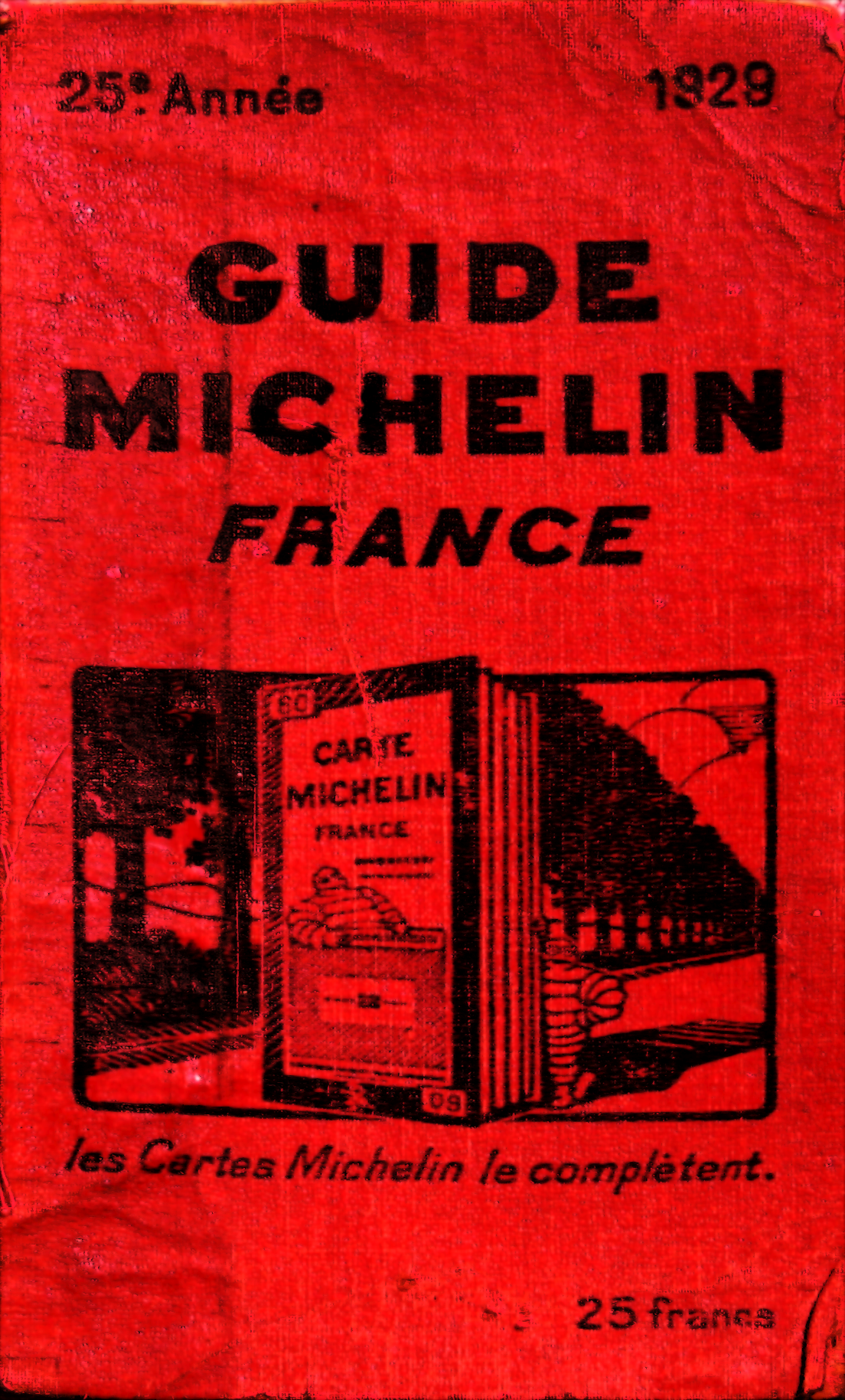 Front cover of the Guide Michelin France 1929